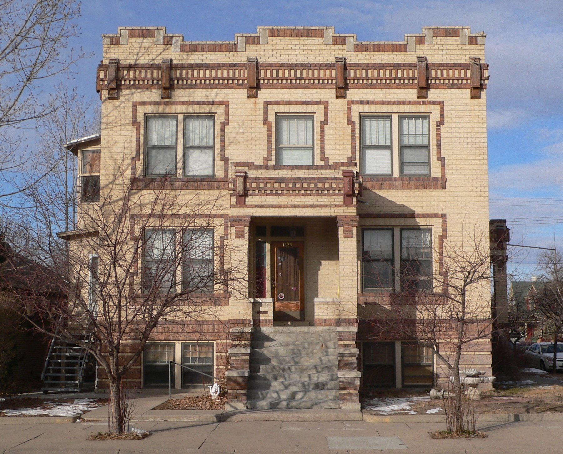 Fontenelle Apartments, located at 1424 4th Avenue in Scottsbluff, Nebraska; seen from the east, across 4th Avenue.